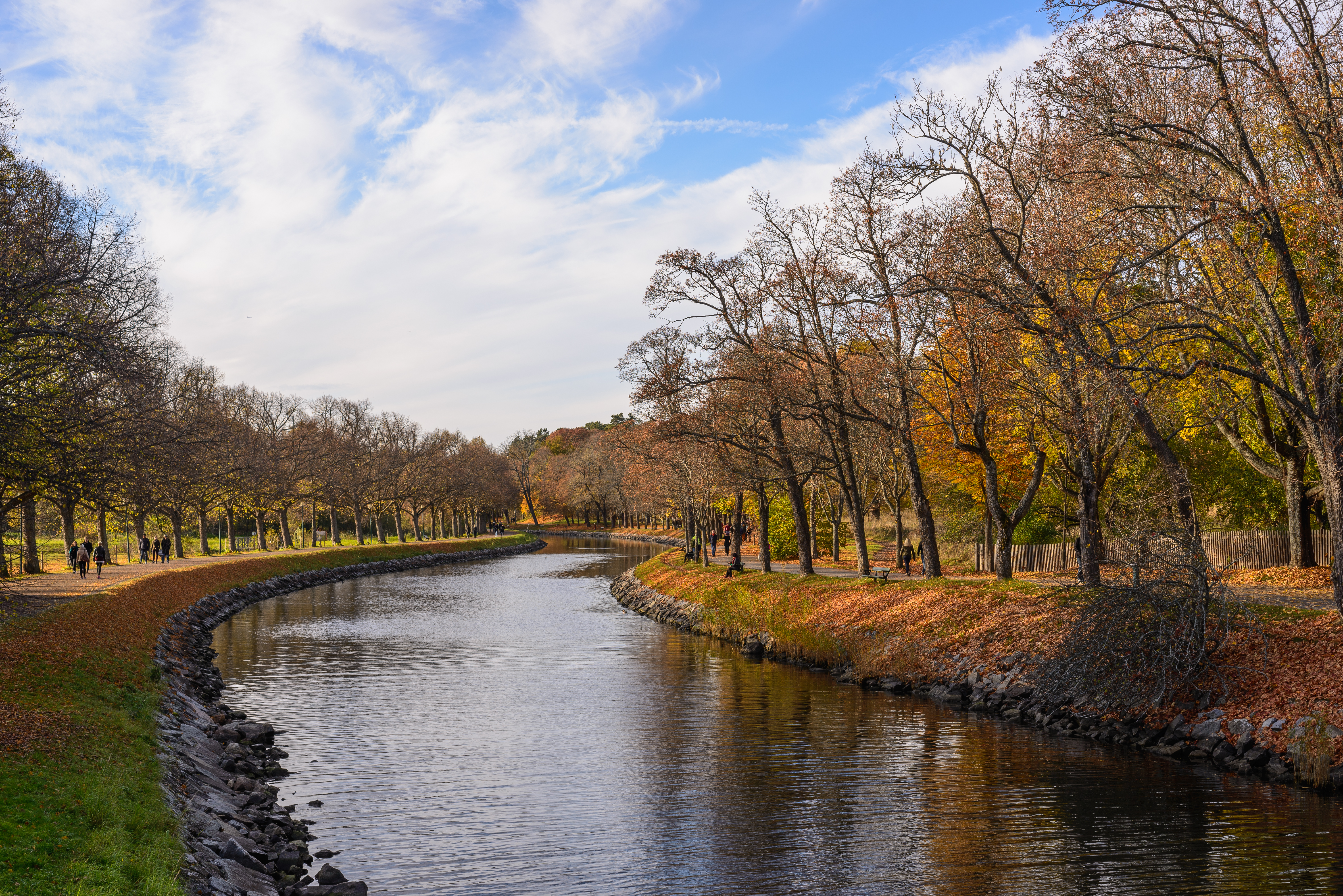 Djurgårdsbrunnskanalen (the Djurgårdsbrunn Canal), Djurgården, Stockholm. View from Lilla Sjötullsbron.